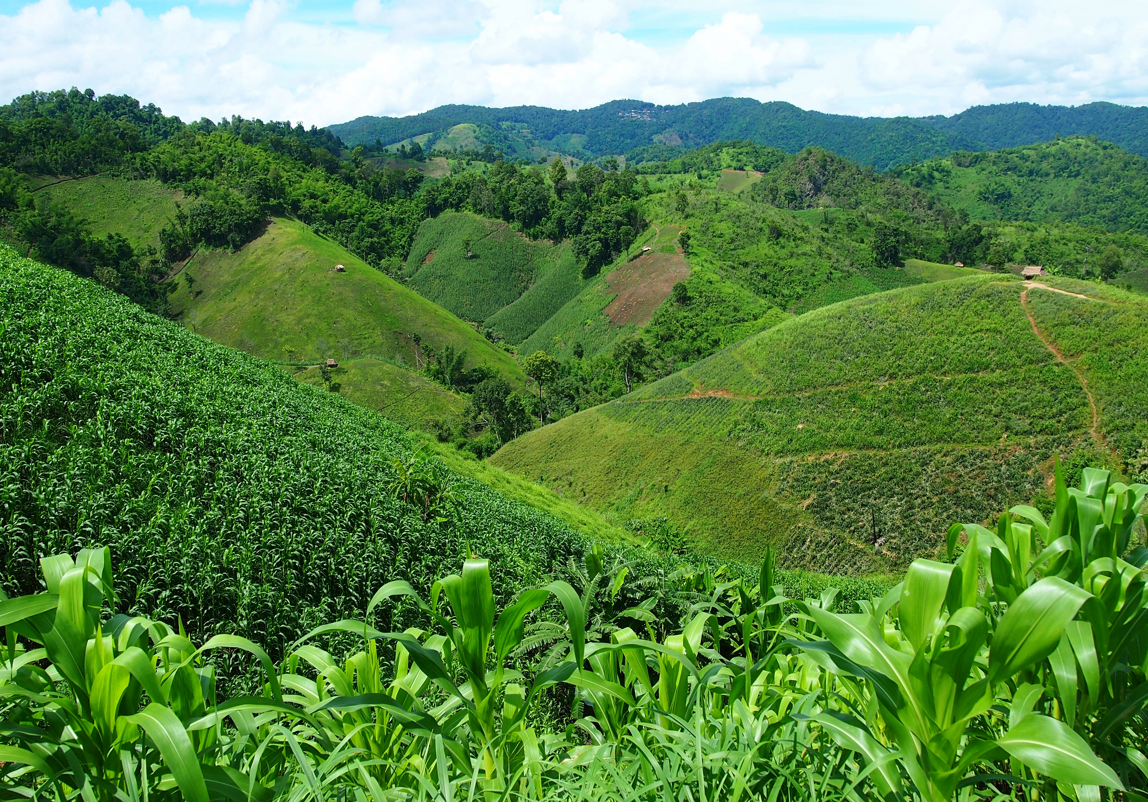 Mae Ai (แม่อาย), Chiang Mai province, Thailand.